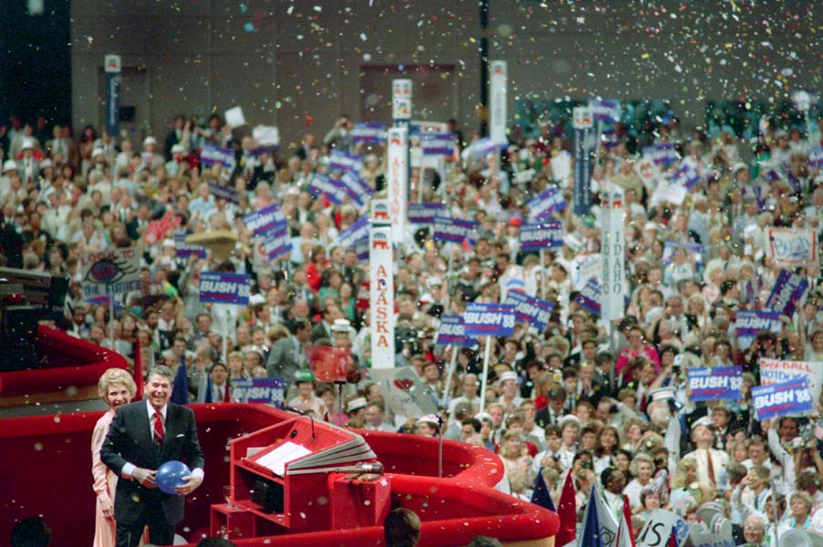 Ronald and Nancy Reagan at the 1988 GOP convention, New Orleans